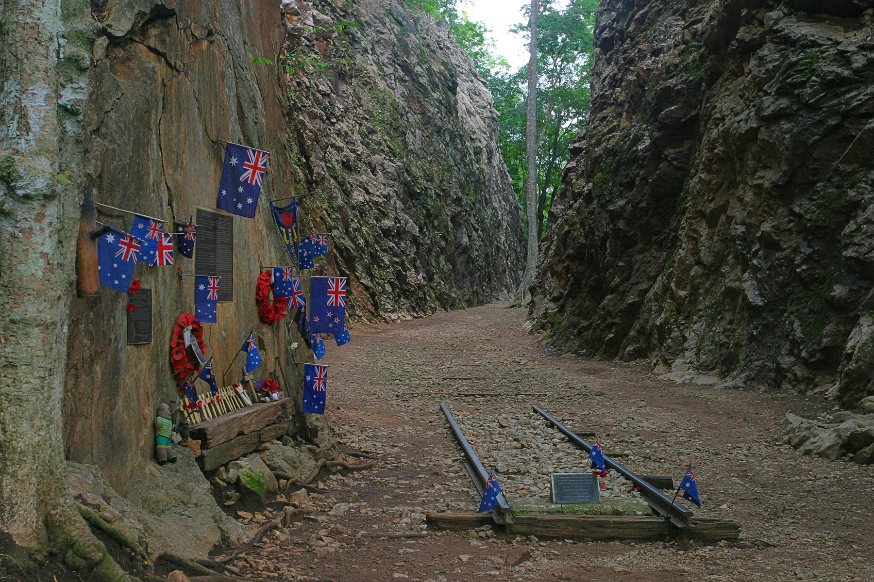 The railway track monument at Hellfire Pass Memorial Museum.